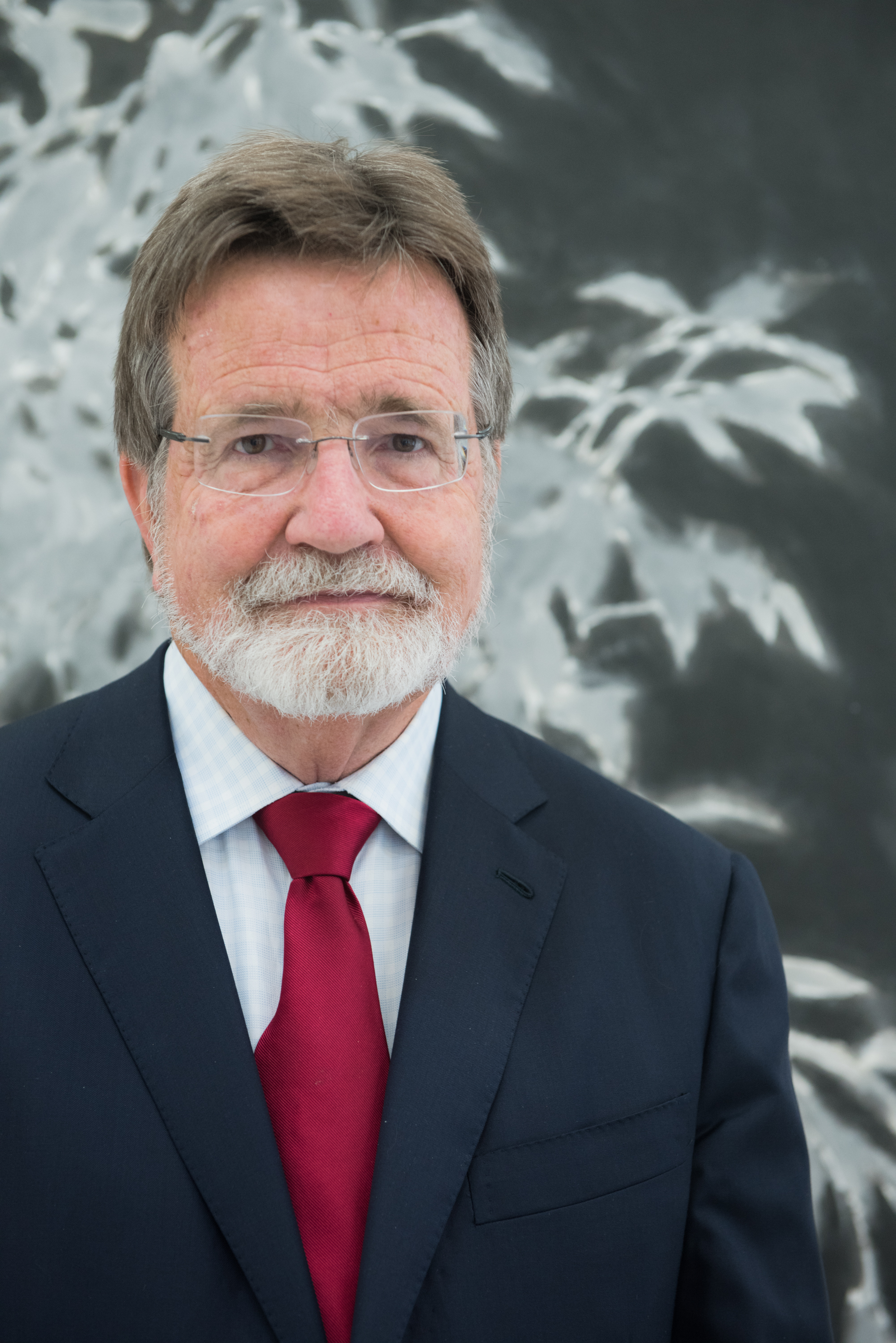 Still of Howard F. Ahmanson Jr. Photo by Los Angeles based photographer, Ash Thayer.